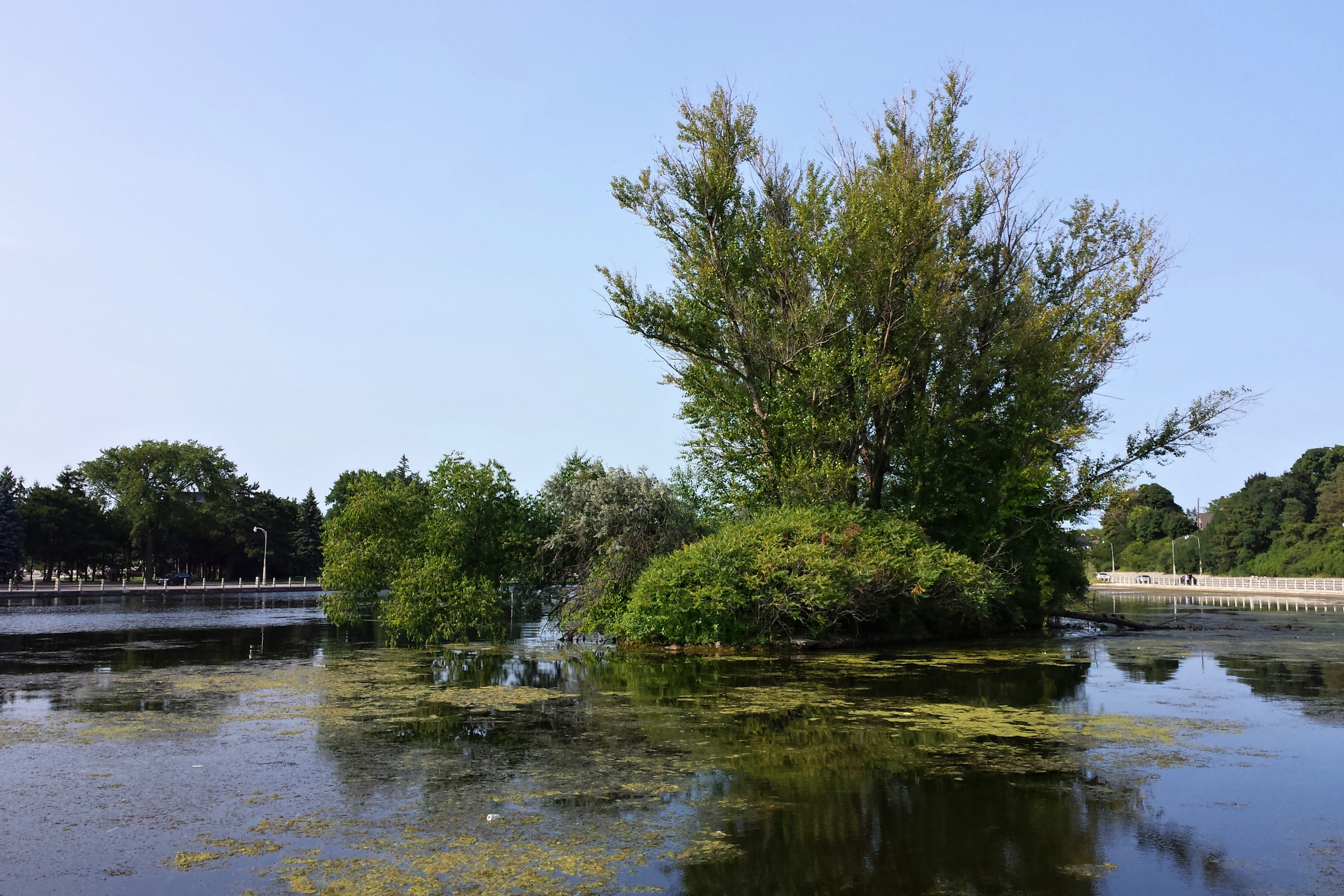 Pig Island, Ottawa, Ontario, Canada